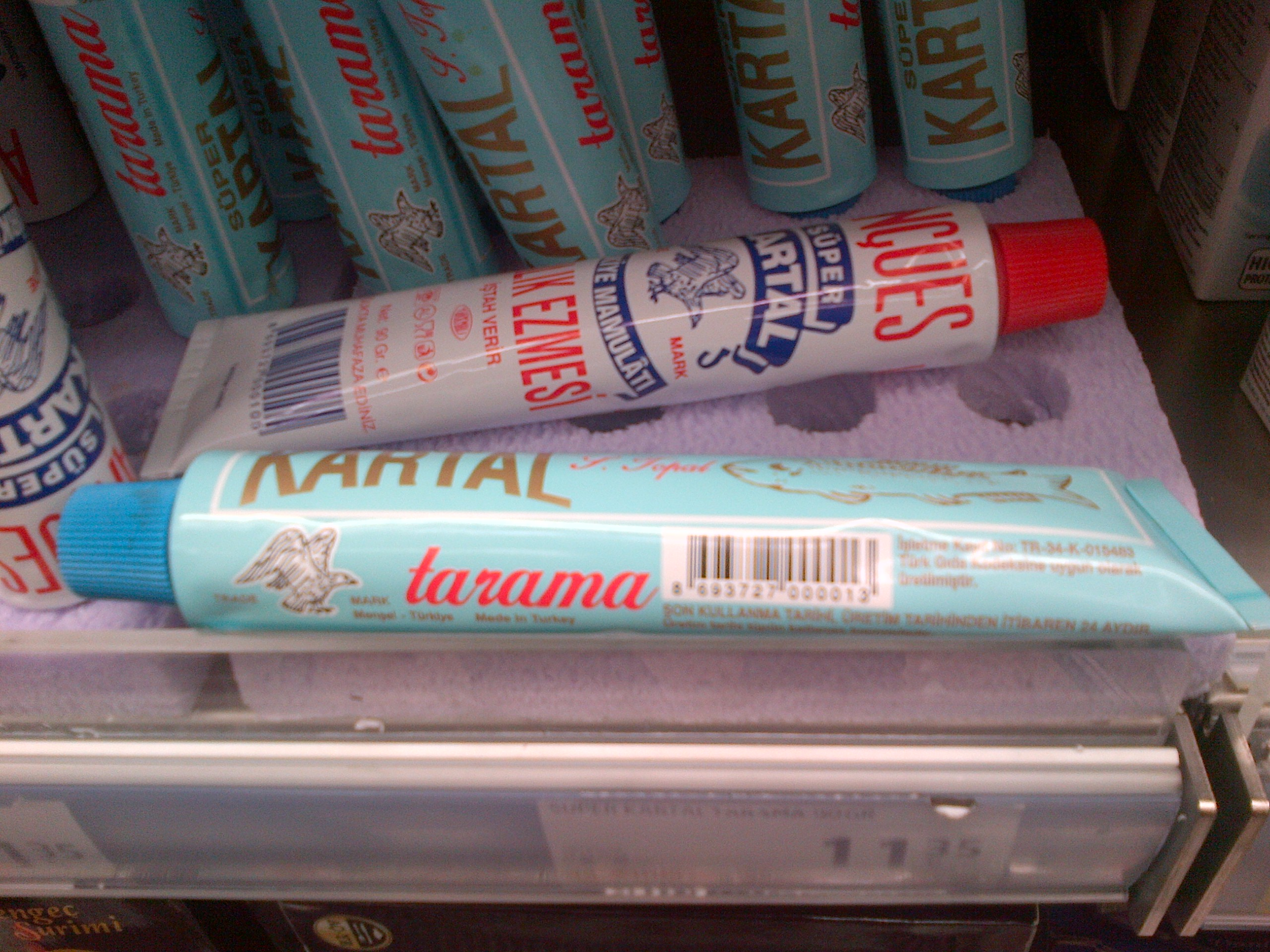 "Tarama" in a tube from the Turkish food industry. The meze dish is referred to as "taramosalata" by the Greeks.